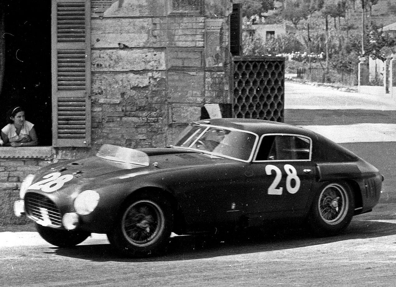 Ferrari 340/375 MM at the 2nd Pescara GP on Aug 16, 1953; starting #28, drivers Mike Hawthorn and Umberto Maglioli. And they won this race.This is chassis #0320AM.[1]